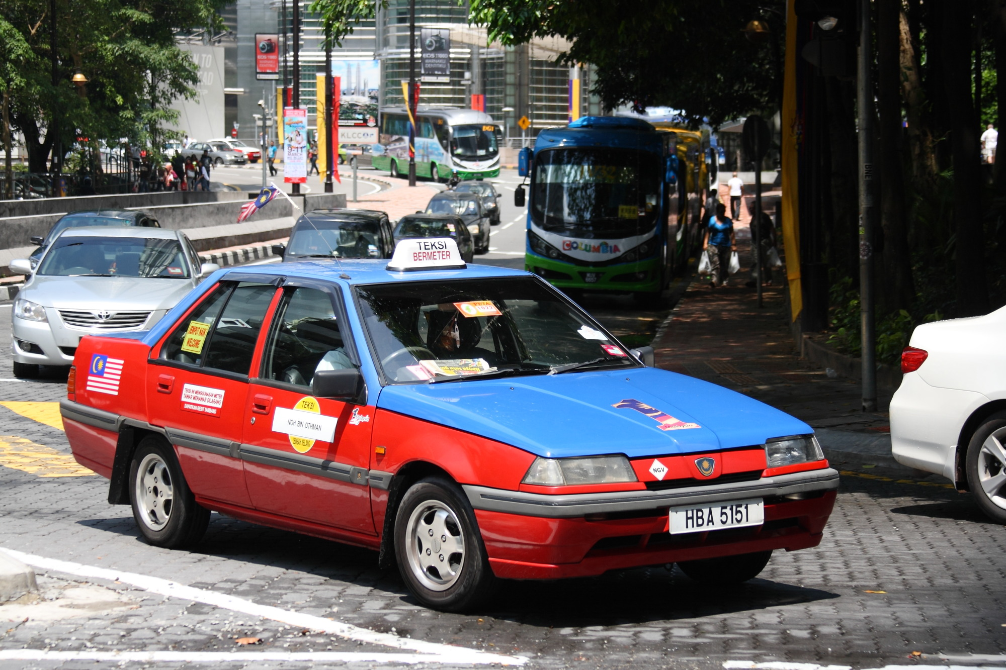 Taxi in Kuala Lumpur, Malaysia